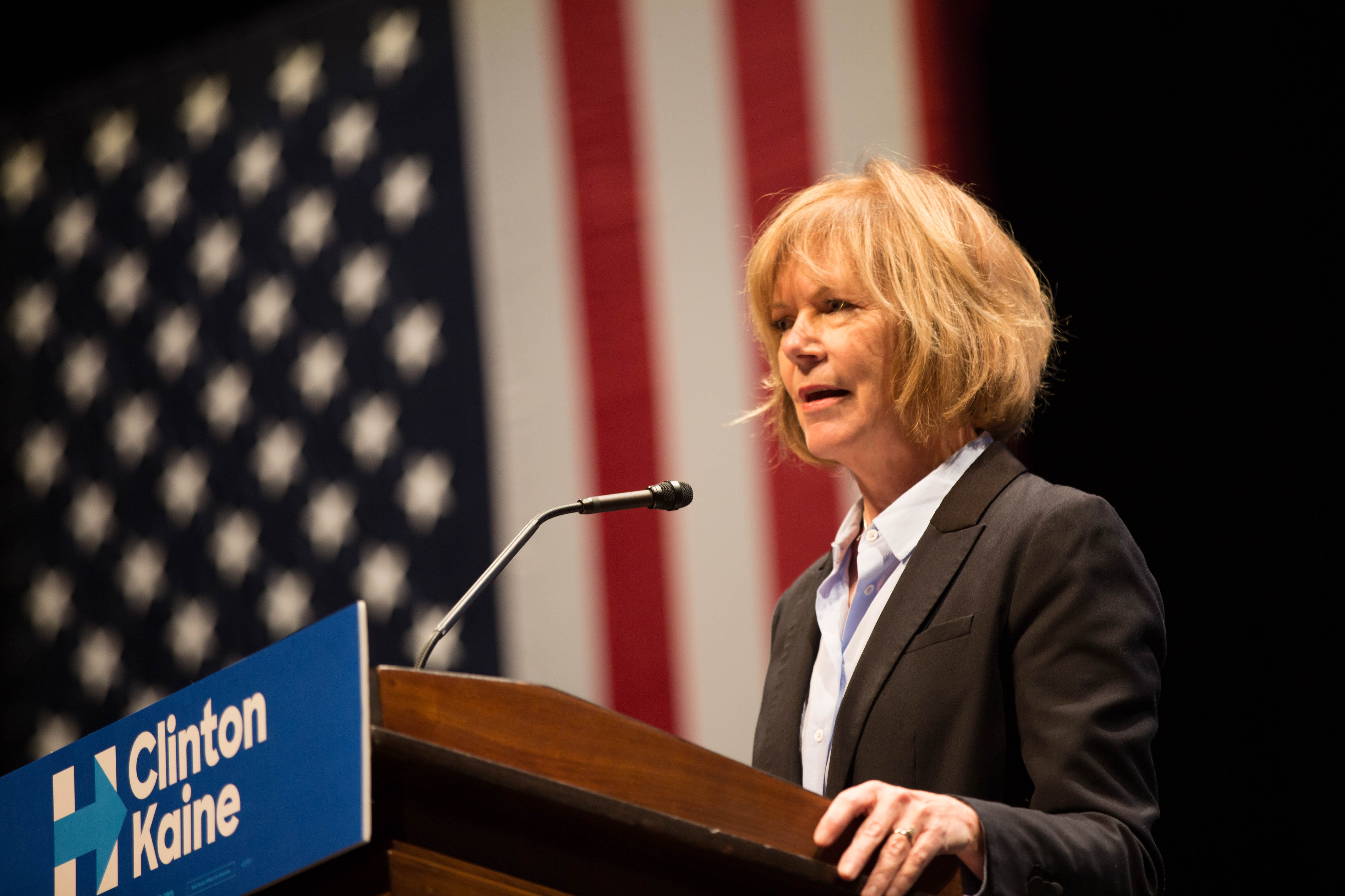 Minnesota Lieutenant Governor, Tina Smith, speaking at a Hillary for MN event at the University of MN